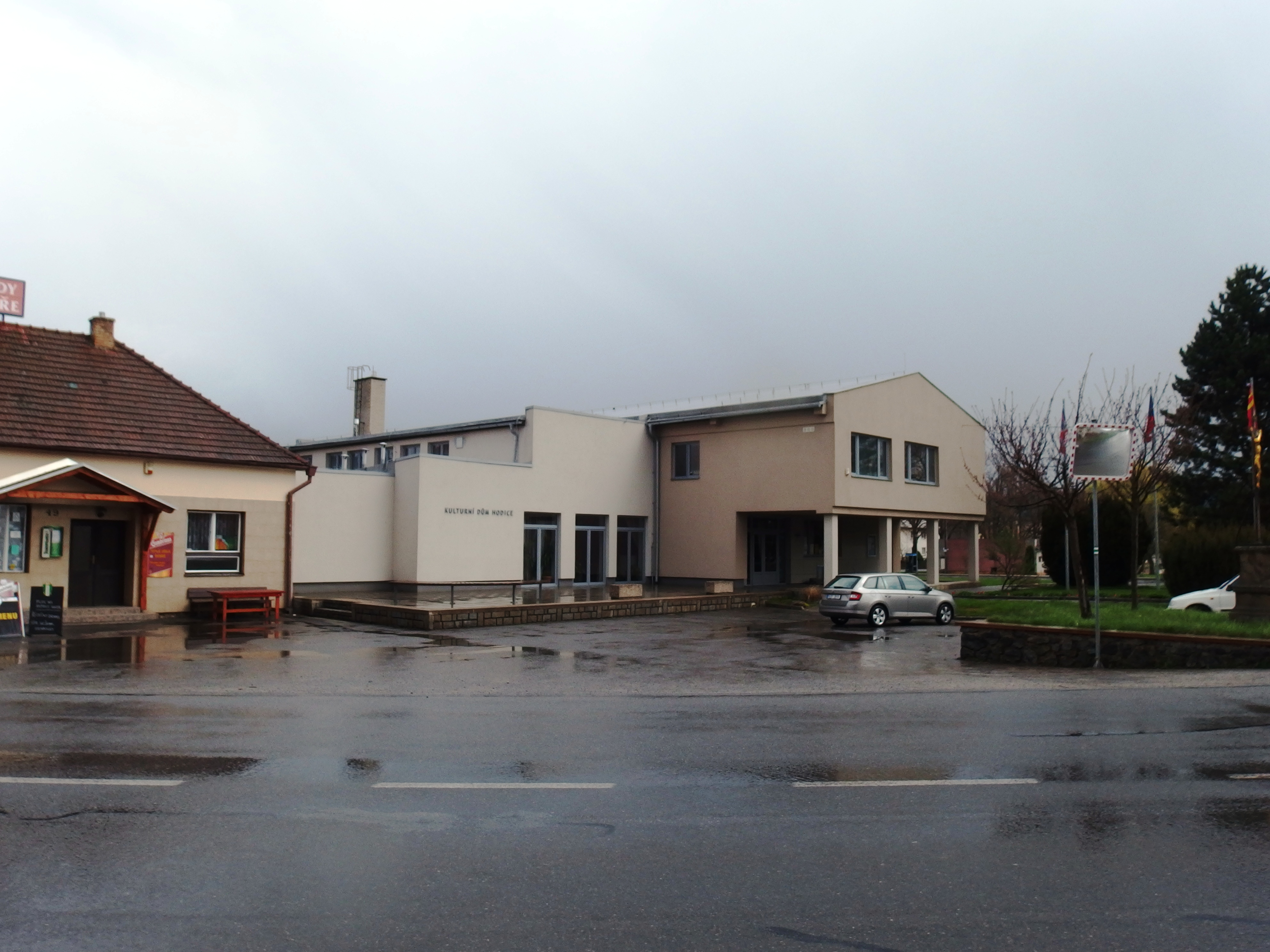 Hodice, Jihlava District, Czech Republic.